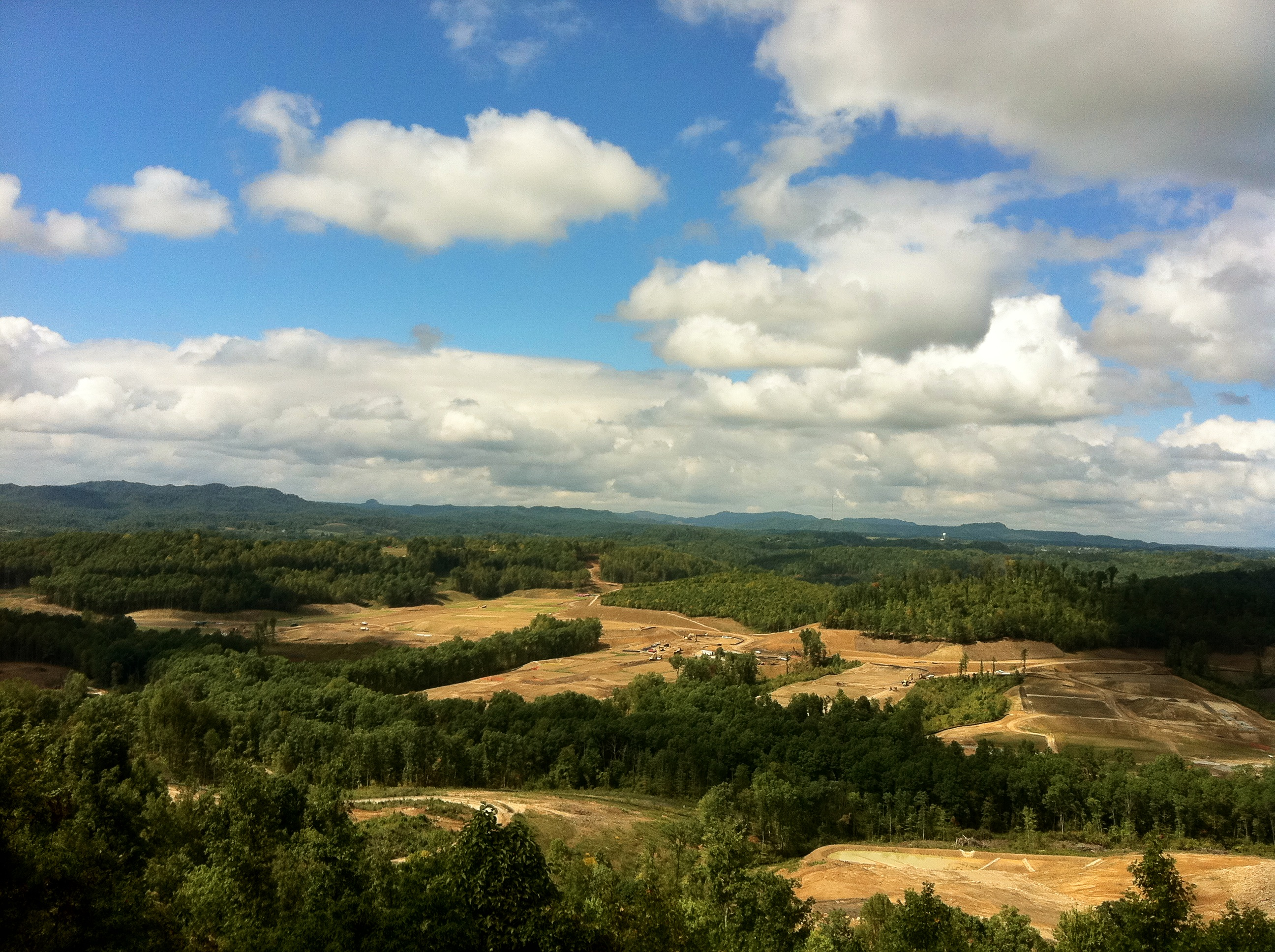 The Summit: Bechtel Family National Scout Reserve - The future home of the Boy Scouts of America 2013 National Jamboree and the Summit High Adventure Base.